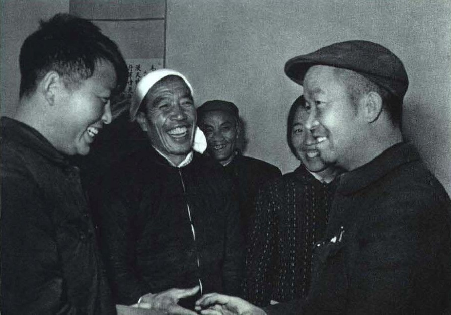 1965-02 1965 周明山 陈永贵 王进喜